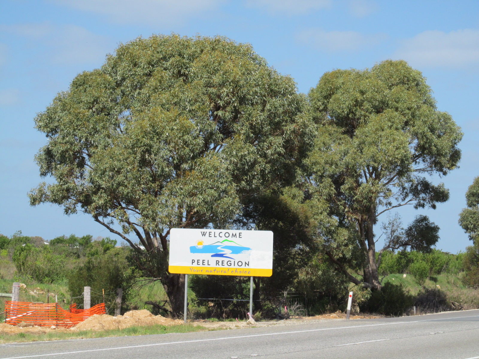 Welcome sign at the northern edge of the Peel Region at Mandurah Road, Madora Bay, Western Australia